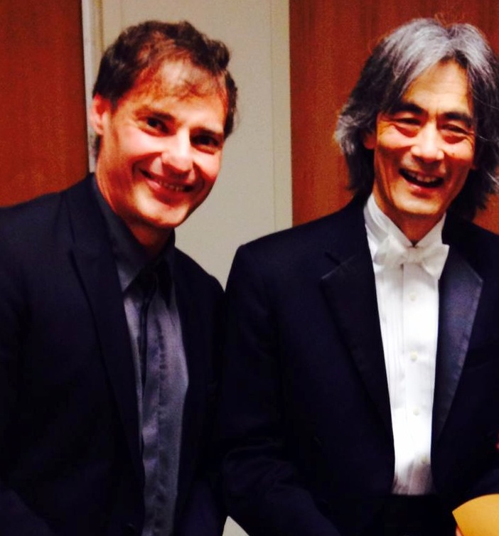 French composer Régis Campo with Maestro Kent Nagano, premiere of Paradis perdu for soprano and orchestra, in 2015, Montréal